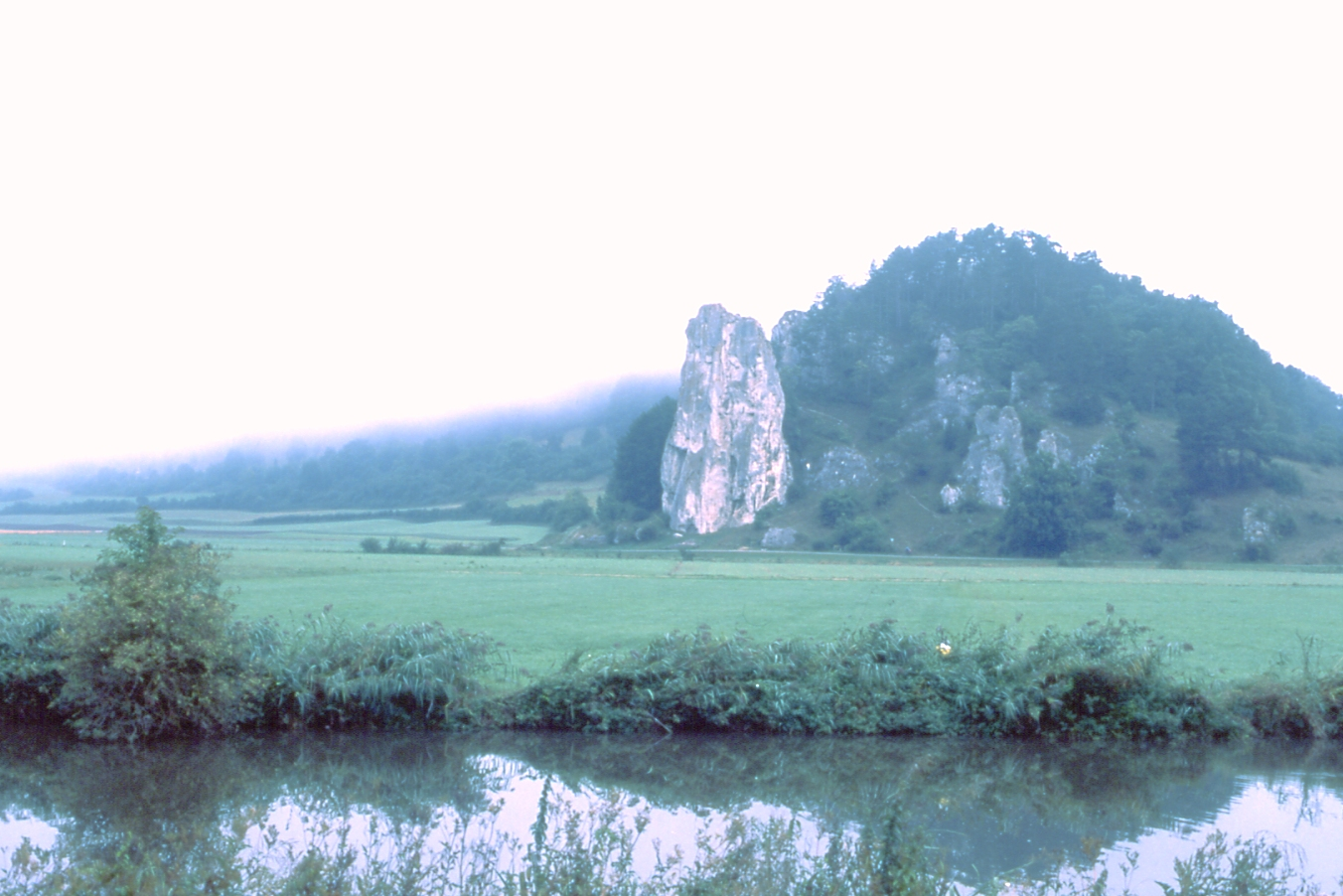 Altmuehl valley in the morning dust